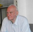 Stevan Đorđević, serbian lawyer, professor at the Faculty of Law, University of Belgrade